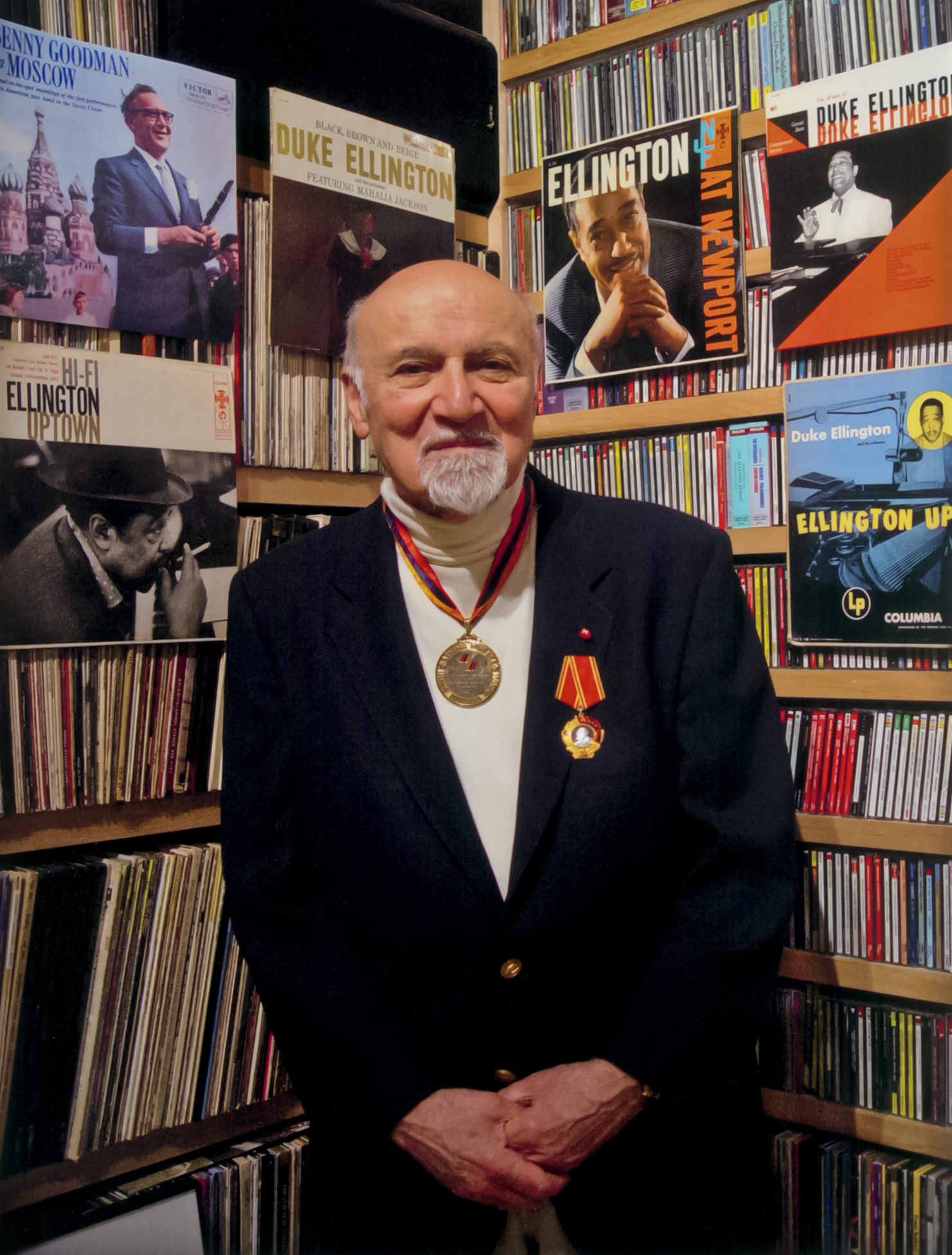 A portrait of George Avakian taken at 830 Broadway, New York City, May 2003